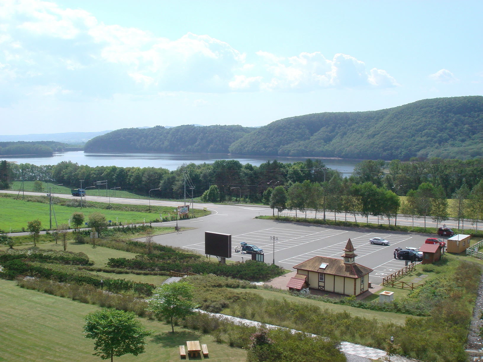 Michinoeki(Roadside Station) Ashoroko (Ashoro, Hokkaidō)